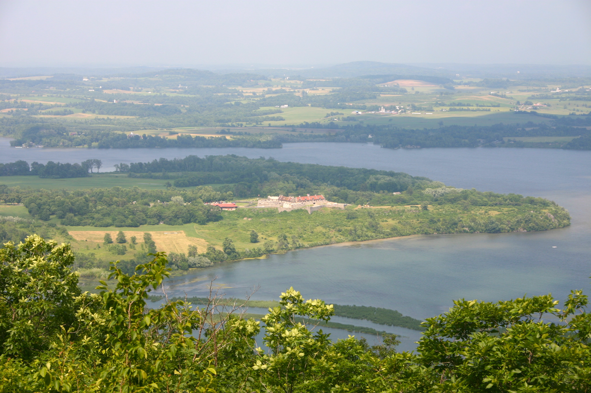 Fort Ticonderoga seen from Mount Defiance